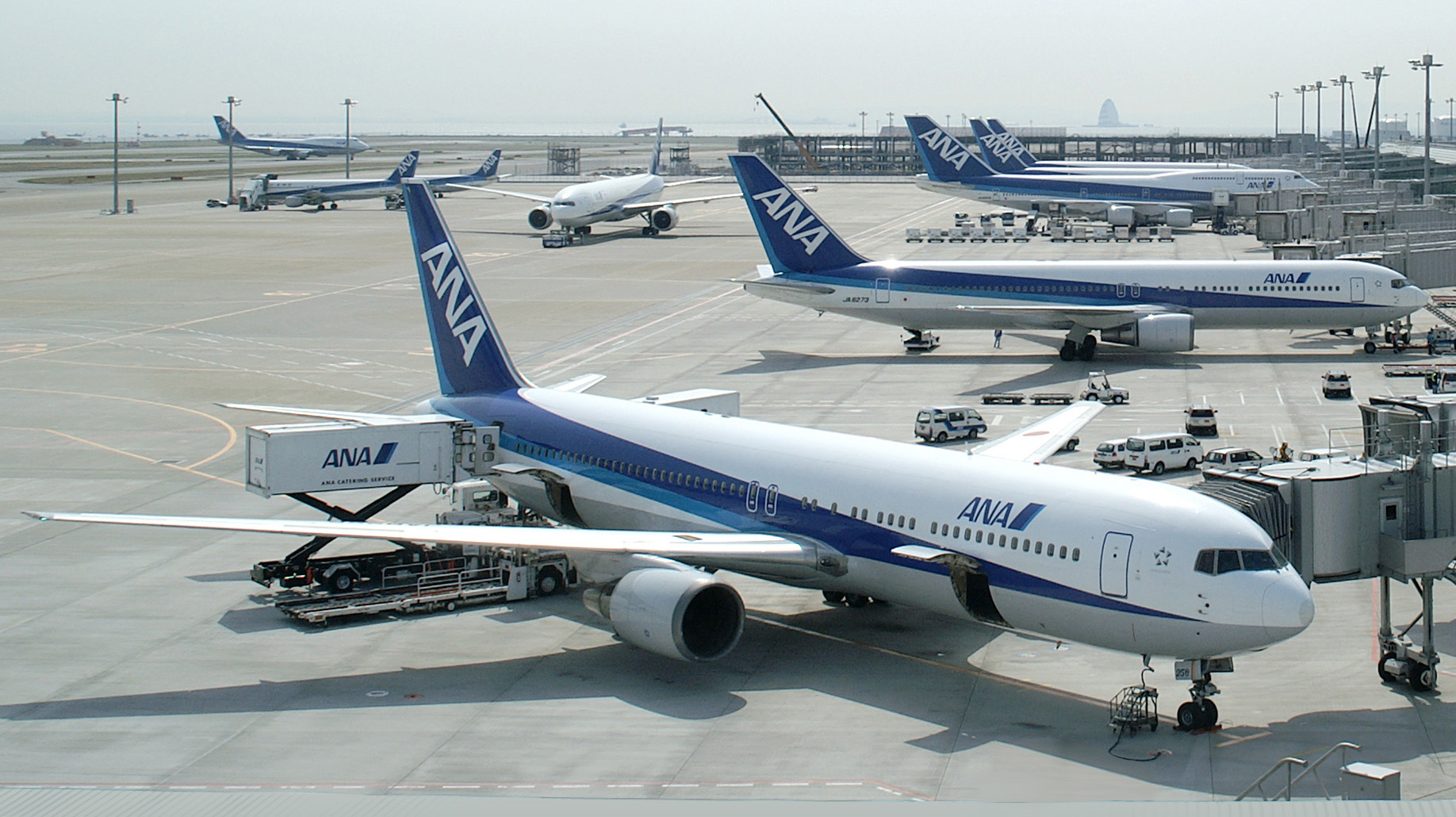 (2006/03/21 Tokyo International Airport, JAPAN)